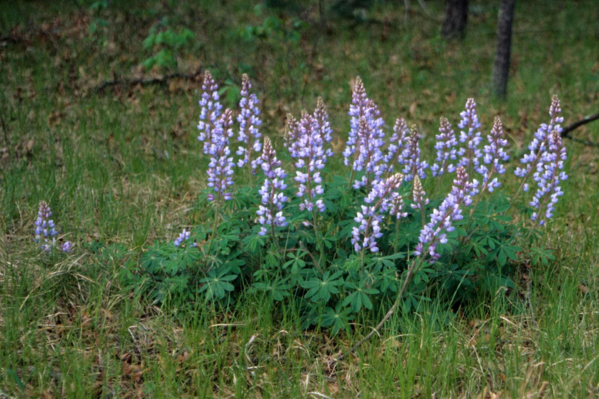 Lupinus perennis L. - sundial lupine or perennial lupine - small patch of flowering lupine growing in Jackson Co., Wisconsin, United States